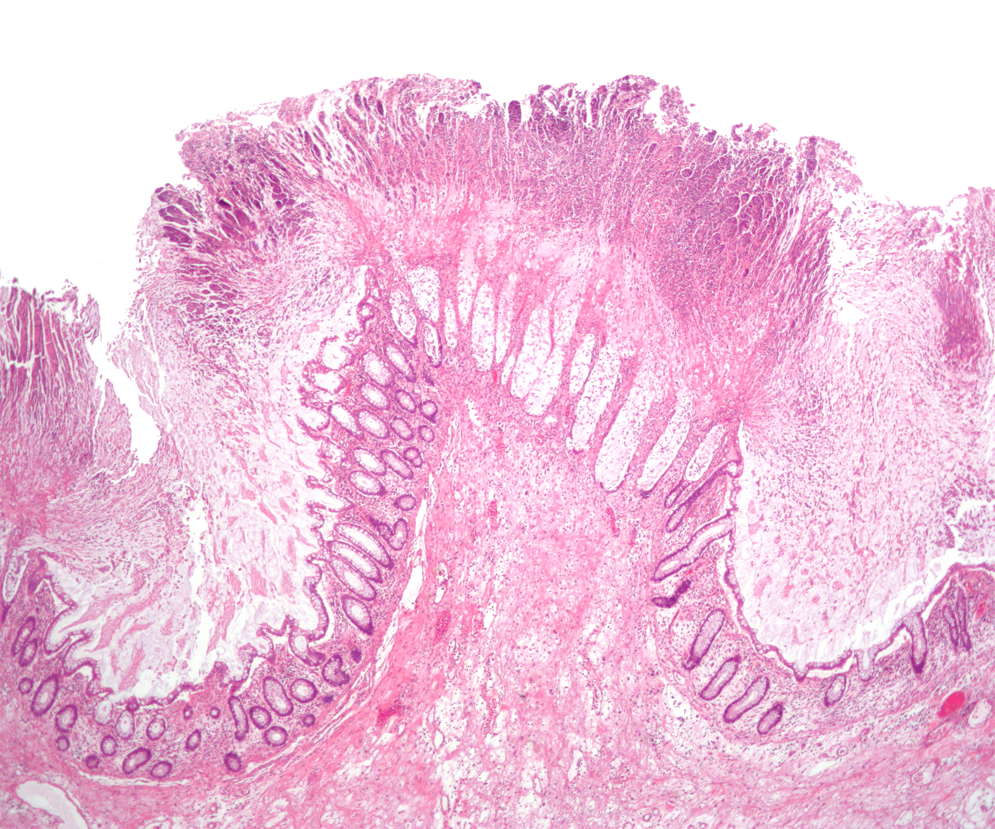 Low magnification micrograph of colonic pseudomembranes in Clostridium difficile colitis, less precisely also known as pseudomembranous colitis. Colonic resection. H&E stain. The presence of pseudomembranes is not synonymous with Clostridium difficile colitis; pseudomembranes may arise due to other infectious organisms and/or bowel ischemia. As the name implies, pseudomembranes are not real membranes; they represent necrotic debris that is attached to the colonic wall and may vaguely resemble a volcanic eruption, when examined microscopically. Related images Low mag. Intermed. mag.